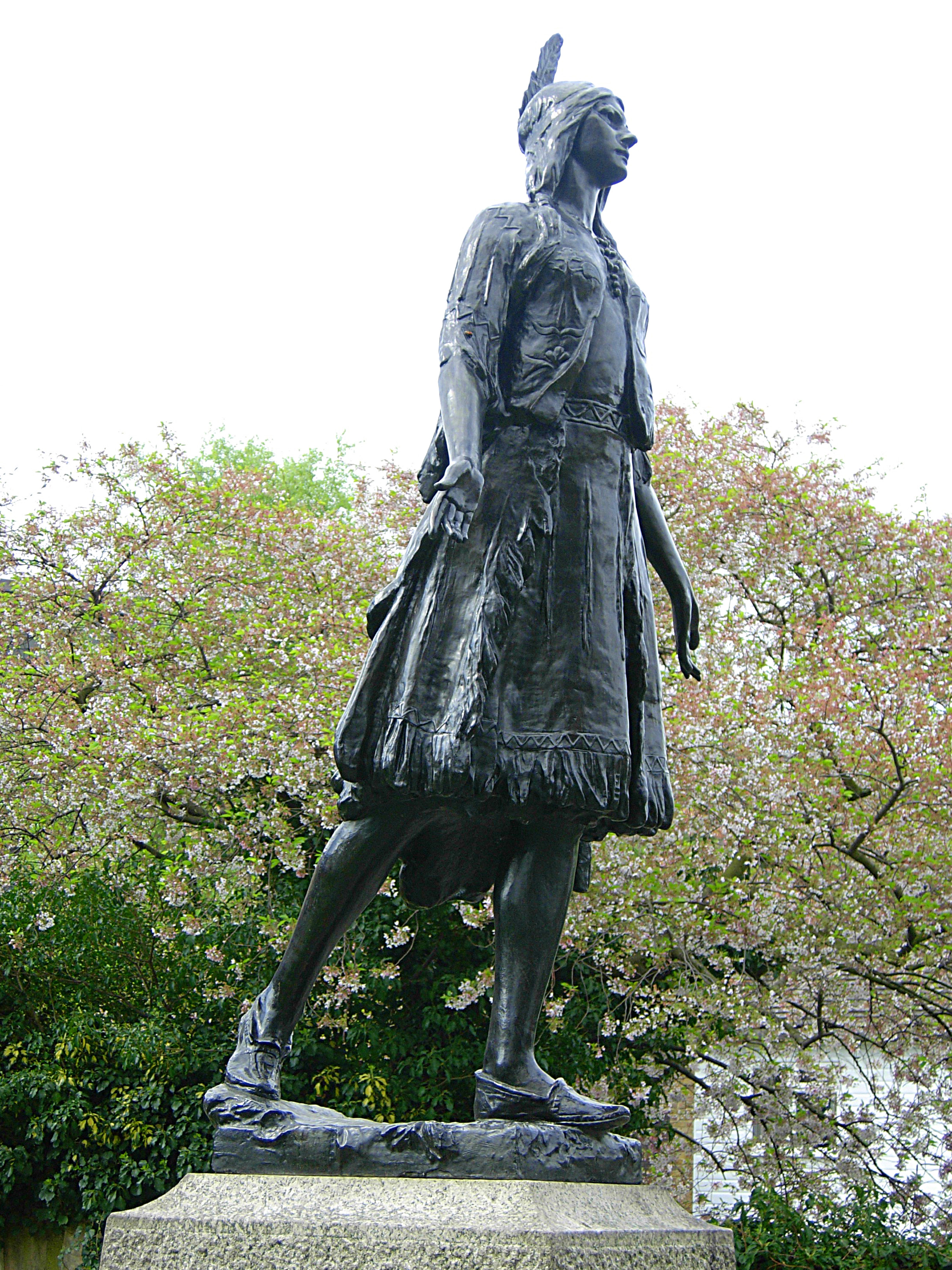 Statue of Pocahontas in St George's Church, Gravesend, Kent UK